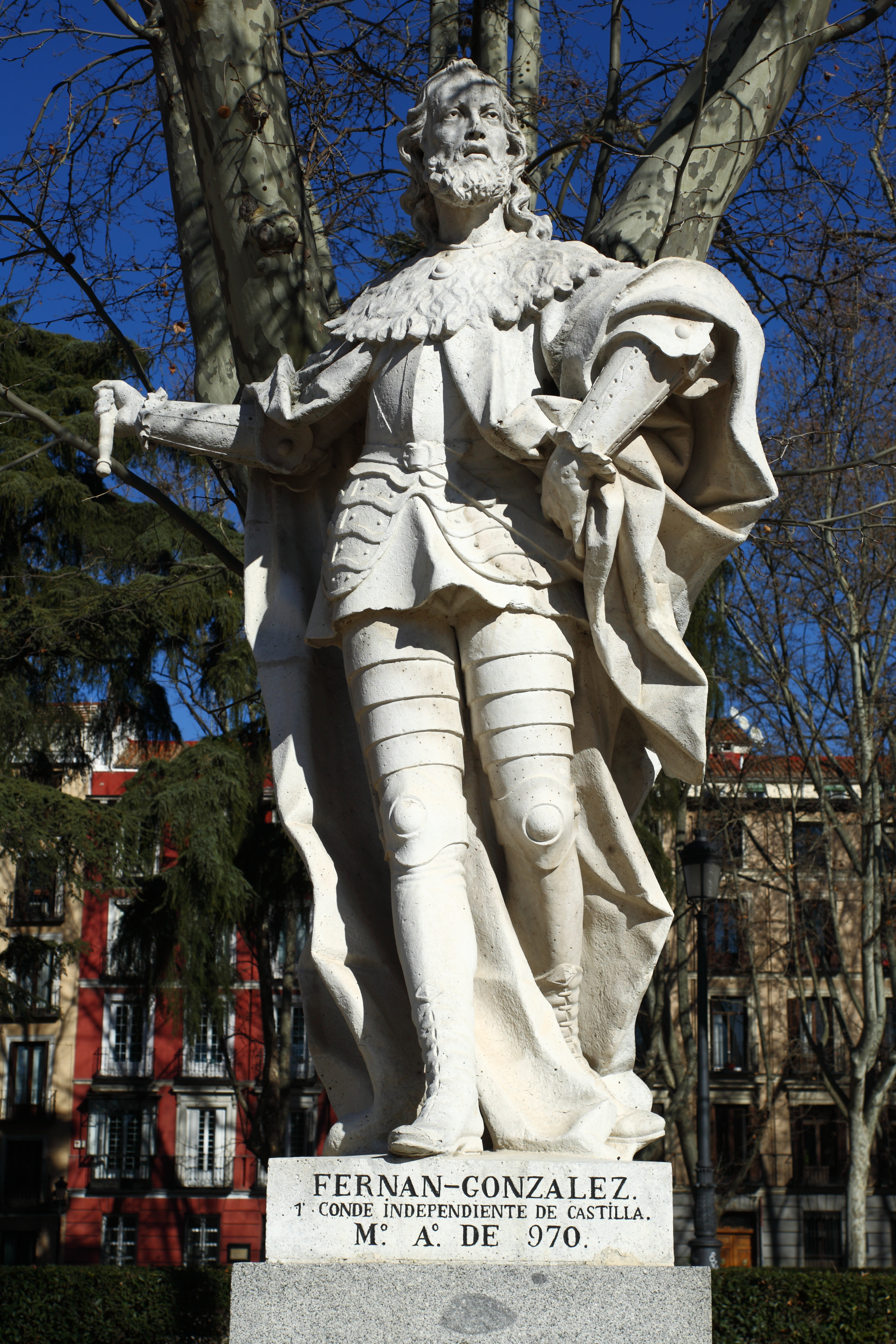 Statue of the Count of Castilla Fernán González (dead in 970), located in the Plaza de Oriente in Madrid (Spain). Sculpted in white stone by Juan de Villanueva Barbales (1681-1765) between 1750 and 1753.